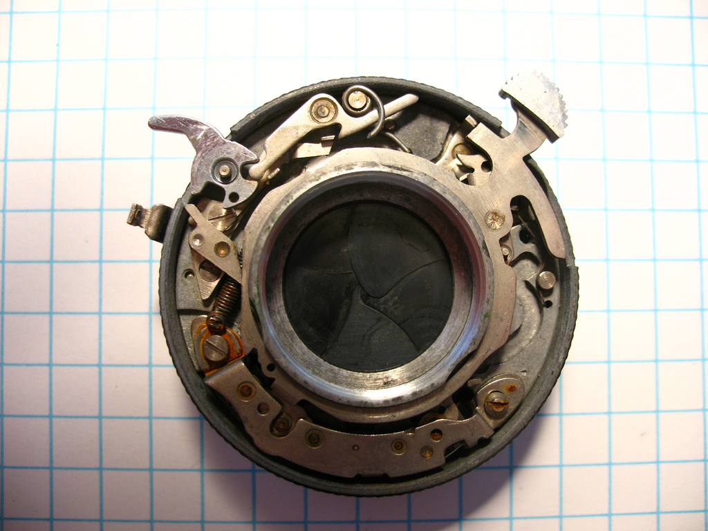 This is as far as I dare disassemble this shutter. Too many little bits and spring-loaded stuff for my taste. Enough access to clean the parts, that's all I need.